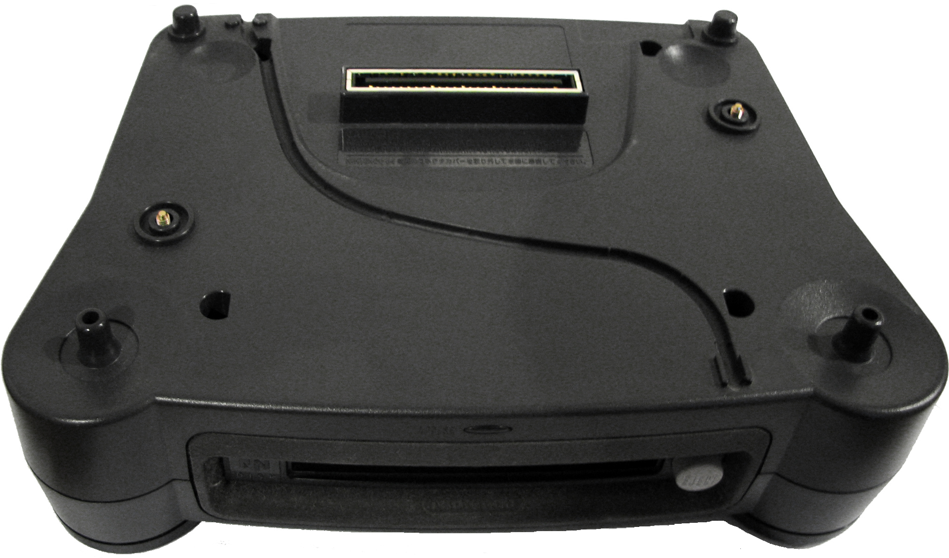 Nude Nintendo 64DD unit, as is, ready to be docked under a Nintendo 64. This unit was only sold in Japan and only works with N64 systems from that part of the globe.